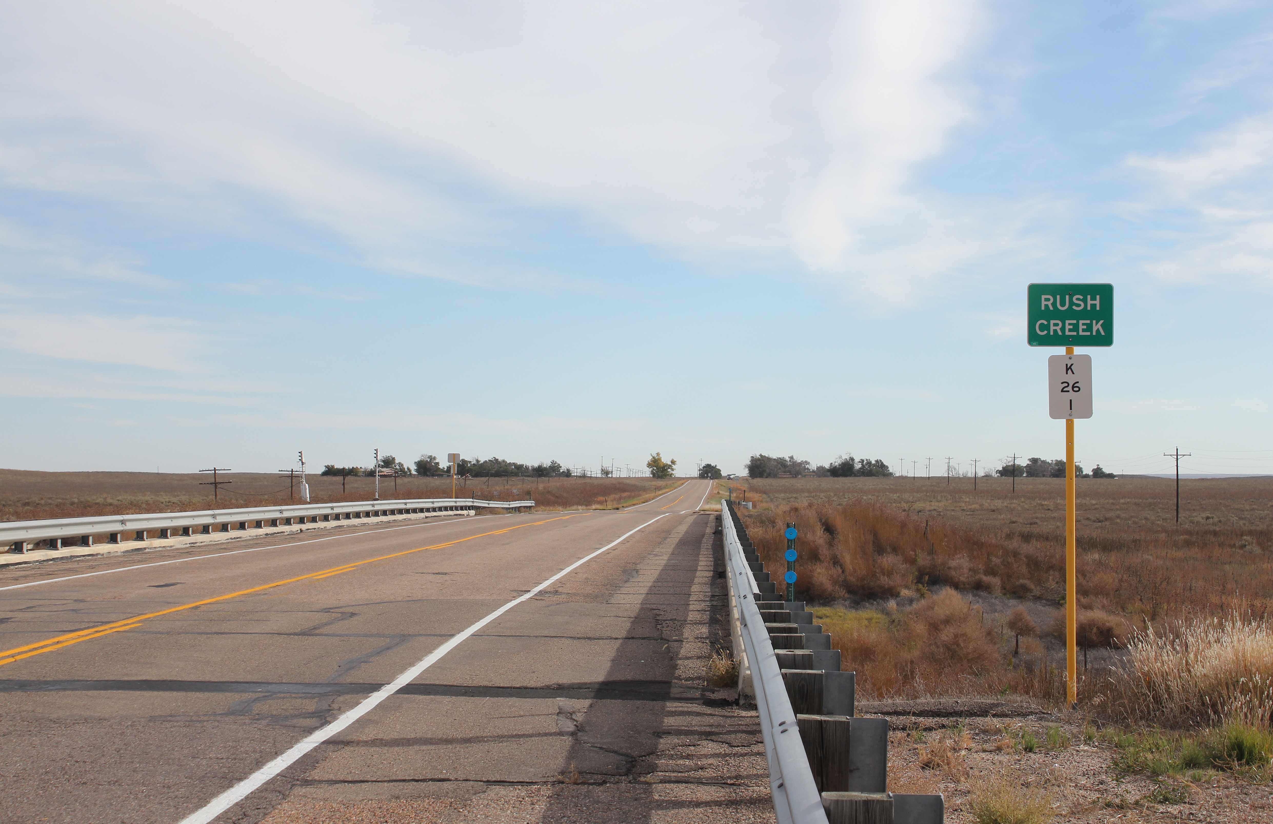 Rush Creek in Kiowa County, Colorado. The highway is Colorado State Highway 96. The trees on the horizon mark the location of the village of Chivington, Colorado.